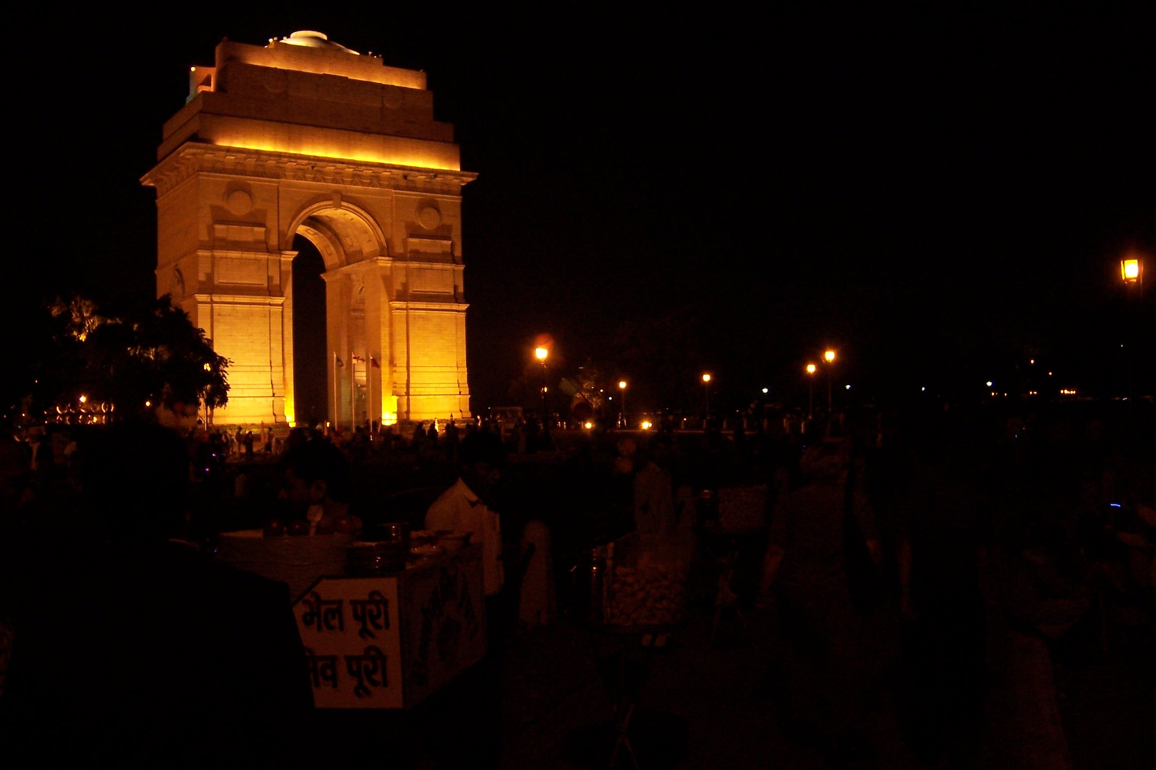 Crowds around India Gate on pleasant night. Taken by me, 27 February 2006.